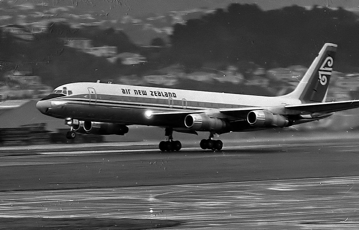 Douglas DC-8 at Wellington Airport, New Zealand in 1974